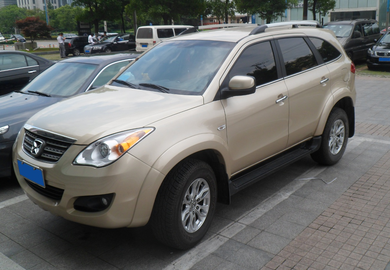 Jiangling Yusheng photographed in Shanghai, China.